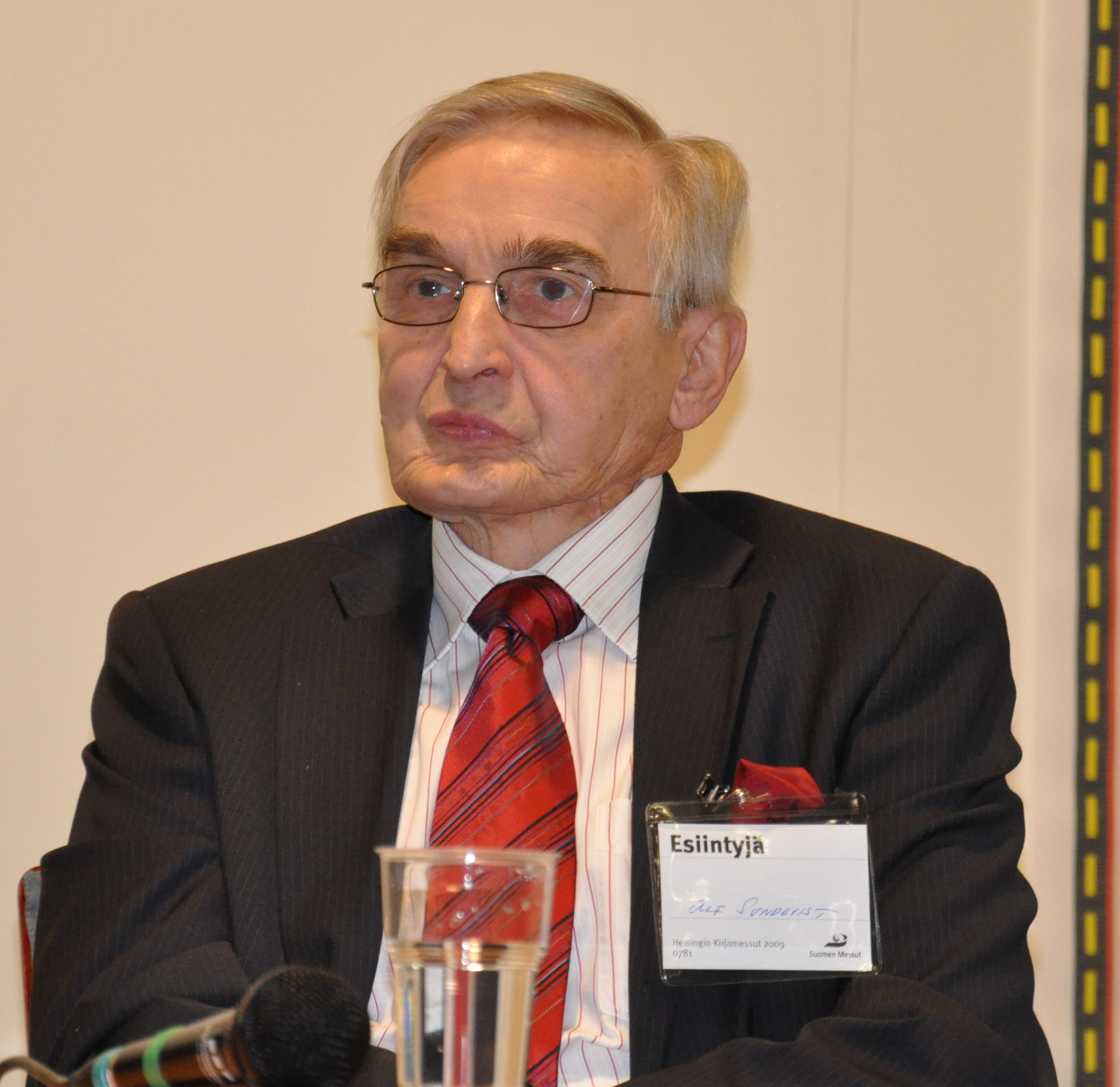 Finnish former politician Ulf Sundqvist at the Helsinki Book Fair 2009.